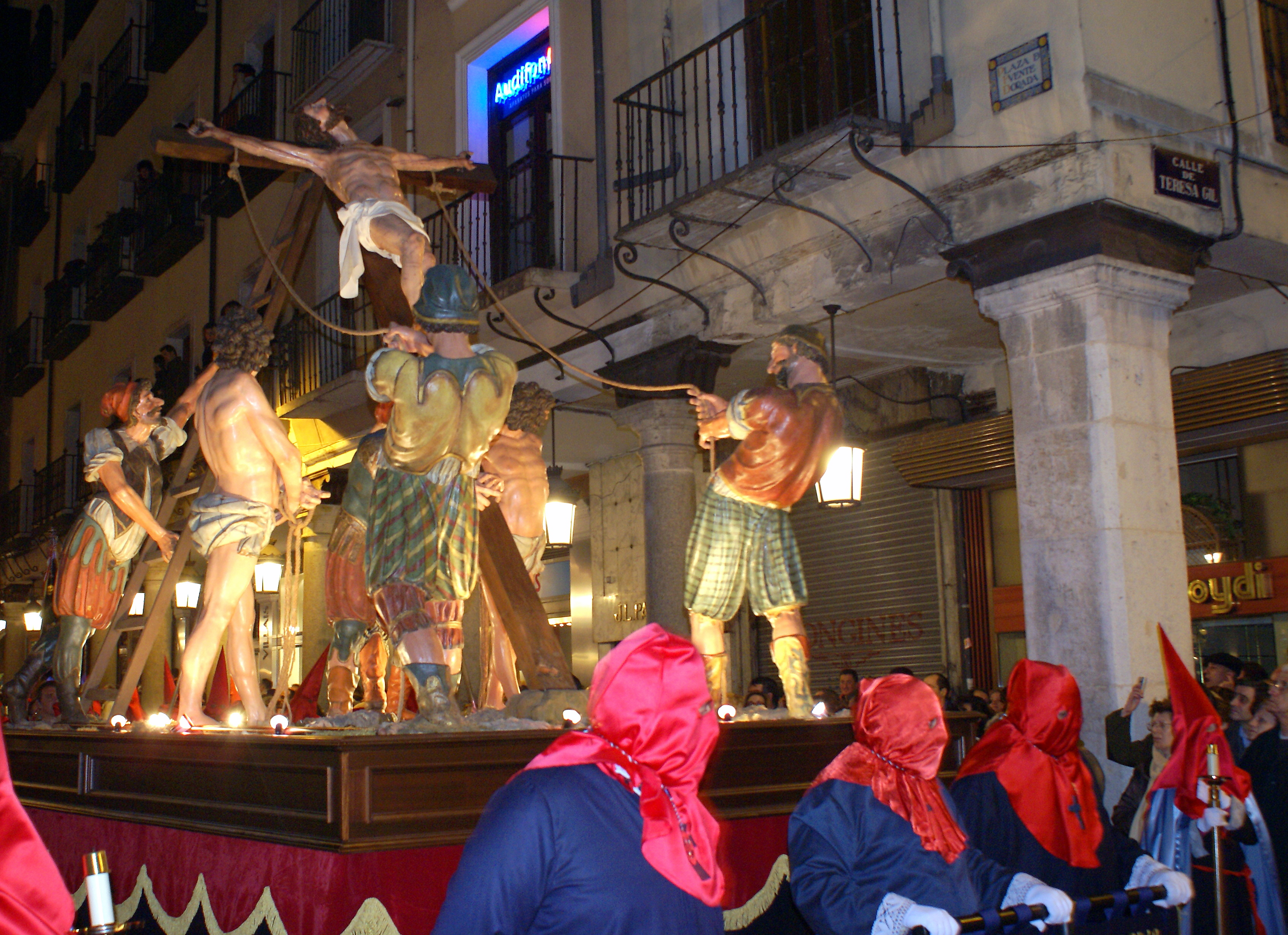 "La Elevación de la Cruz" (Elevation of the Cross), by Francisco del Rincón, Valladolid, 1604.